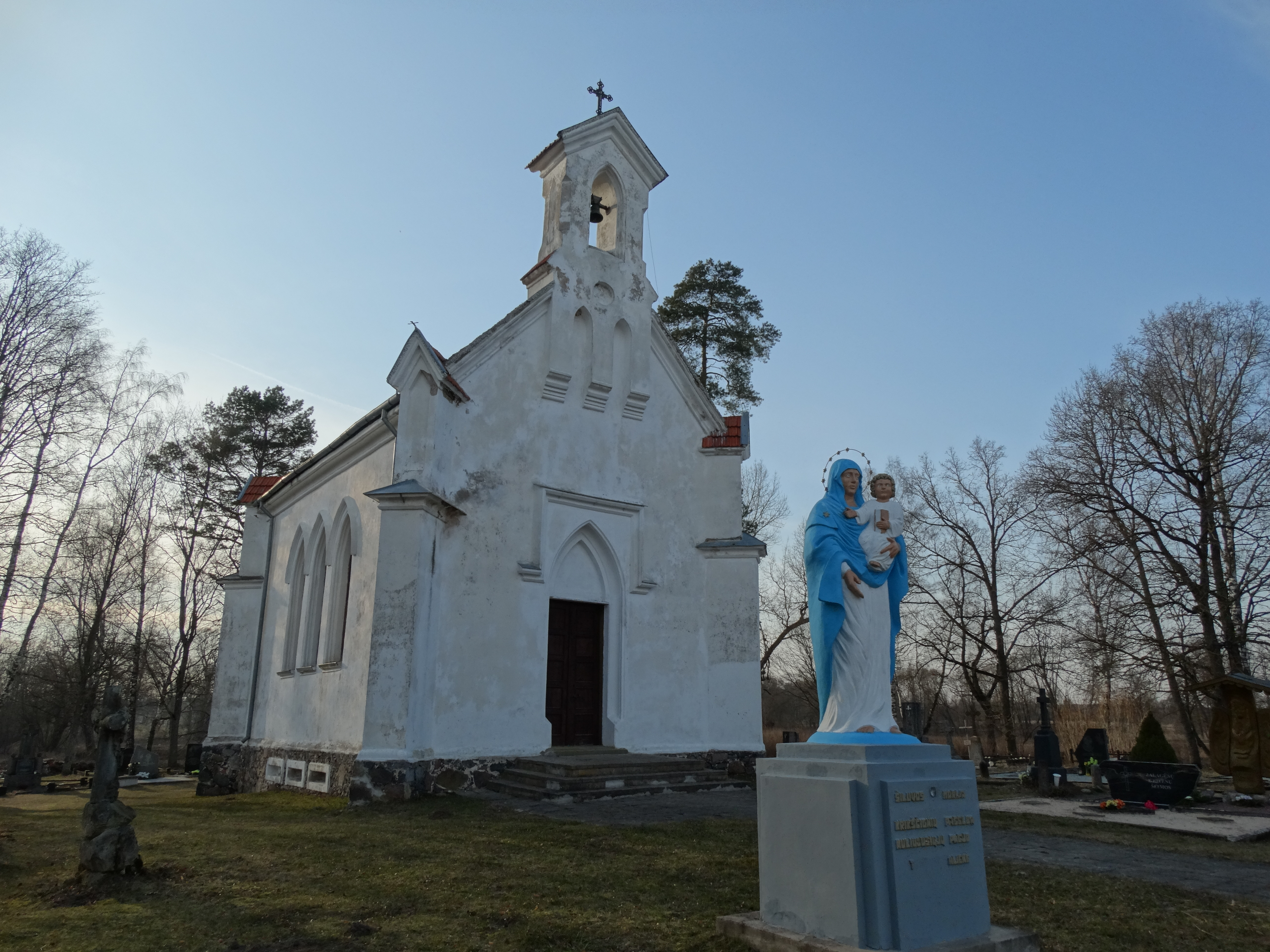 Marijonava chapel, Kabeliai, Panevėžys district, Lithuania